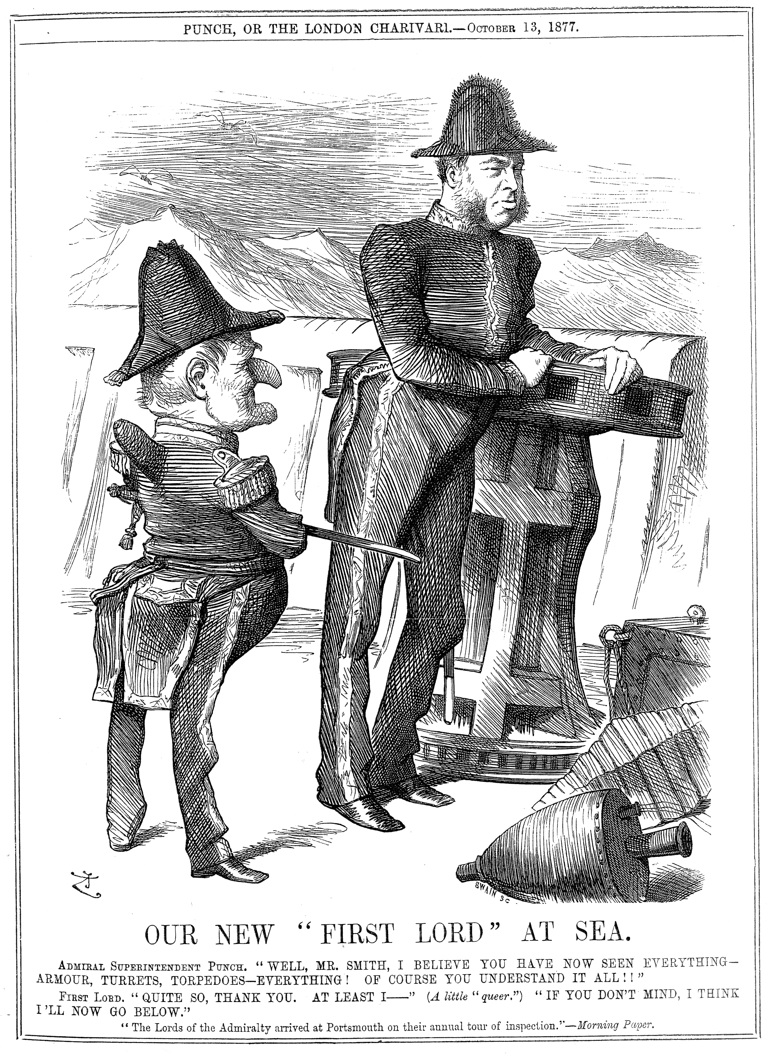 W H Smith as First Lord of the Admiralty, was a subject of derision even before H.M.S. Pinafore. This Punch cartoon comes from a year before Pinafore's première. The Caption reads: Admiral Superintendent Punch. "Well, Mr. Smith, I believe you have now seen everything—armour, turrets, torpedoes—everything! Of course you understand it all!!" First Lord. "Quite so, thank you. At least I—" (A little "queer.") "If you don't mind, I think I'll now go below." "The Lords of the Admiralty arrived at Portsmouth on their annual tour of inspection." — Morning Paper